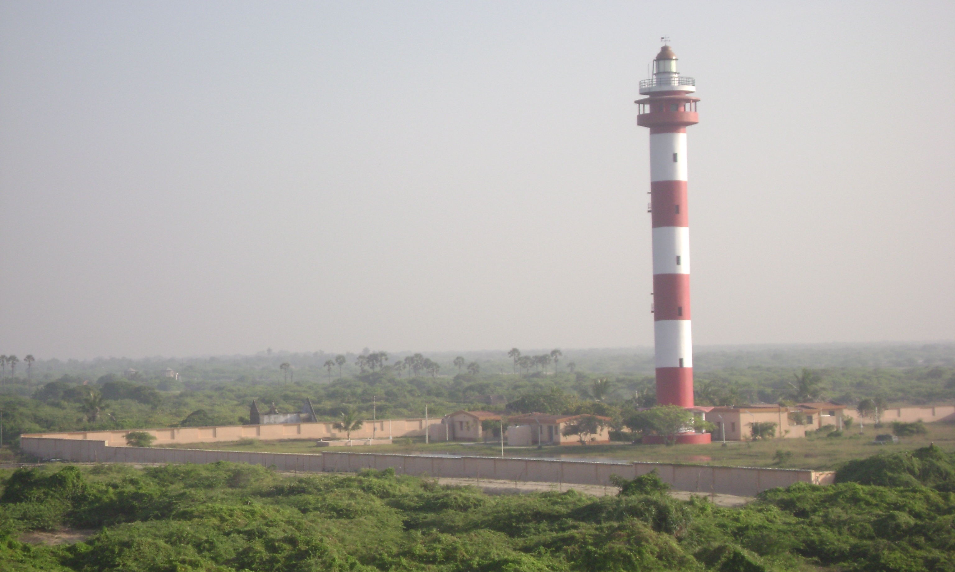 Point Calimere Wildlife and Bird Sanctuary, Kodaikarai Lighthouse, a tall modern aid to navigation located near Kodaikorai Beach